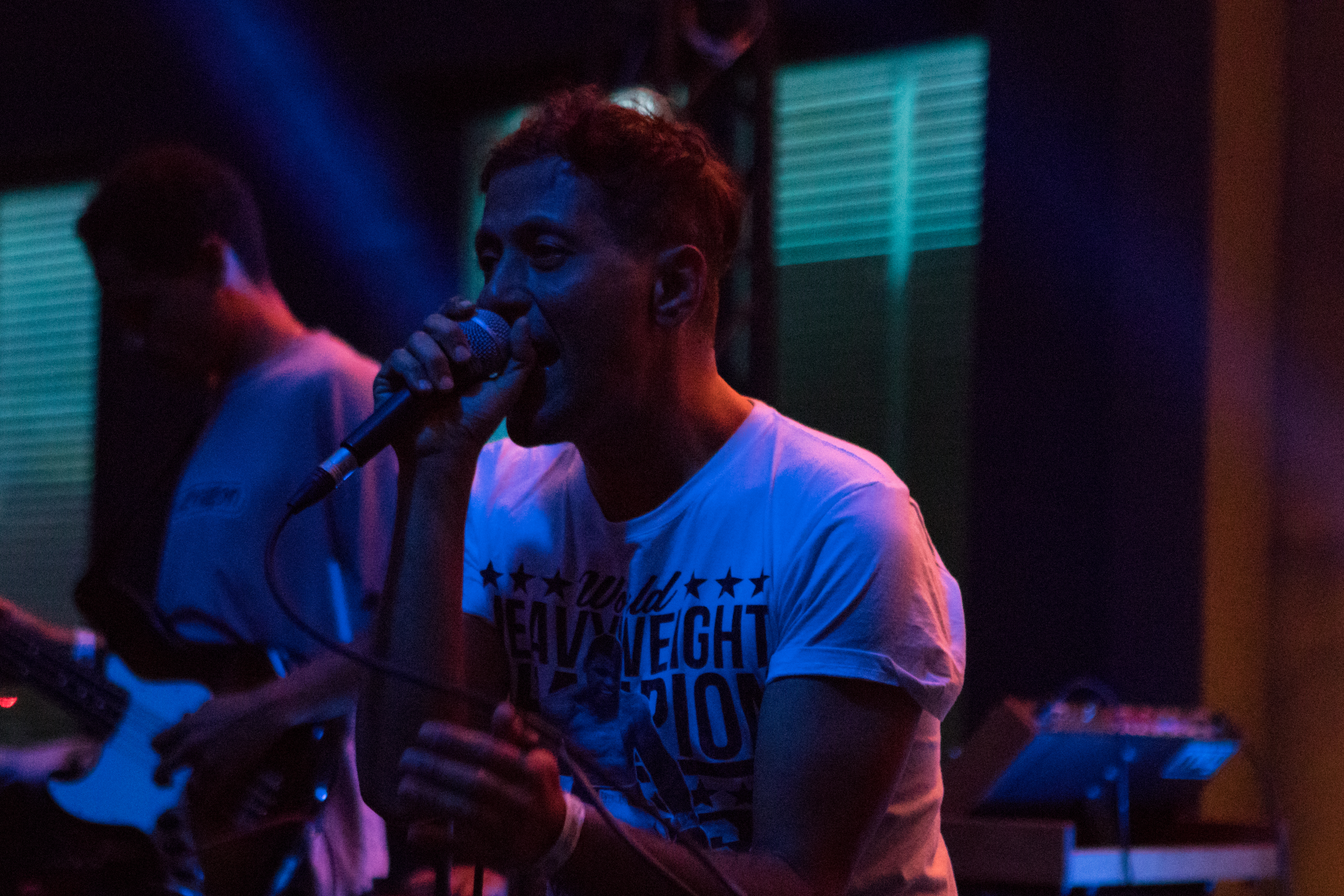 Abay at Way Back When Festival 2017 in Dortmund